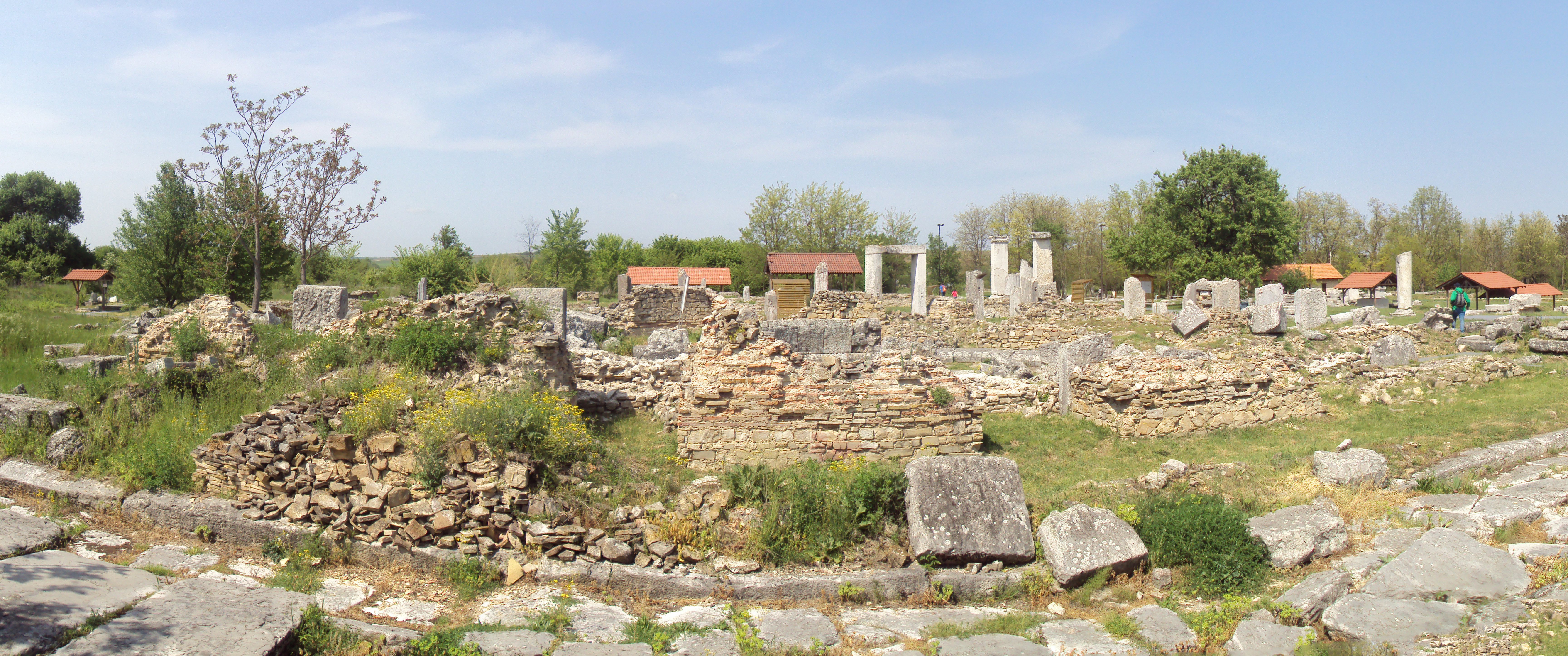 The ancient city of Nicopolis ad Istrum